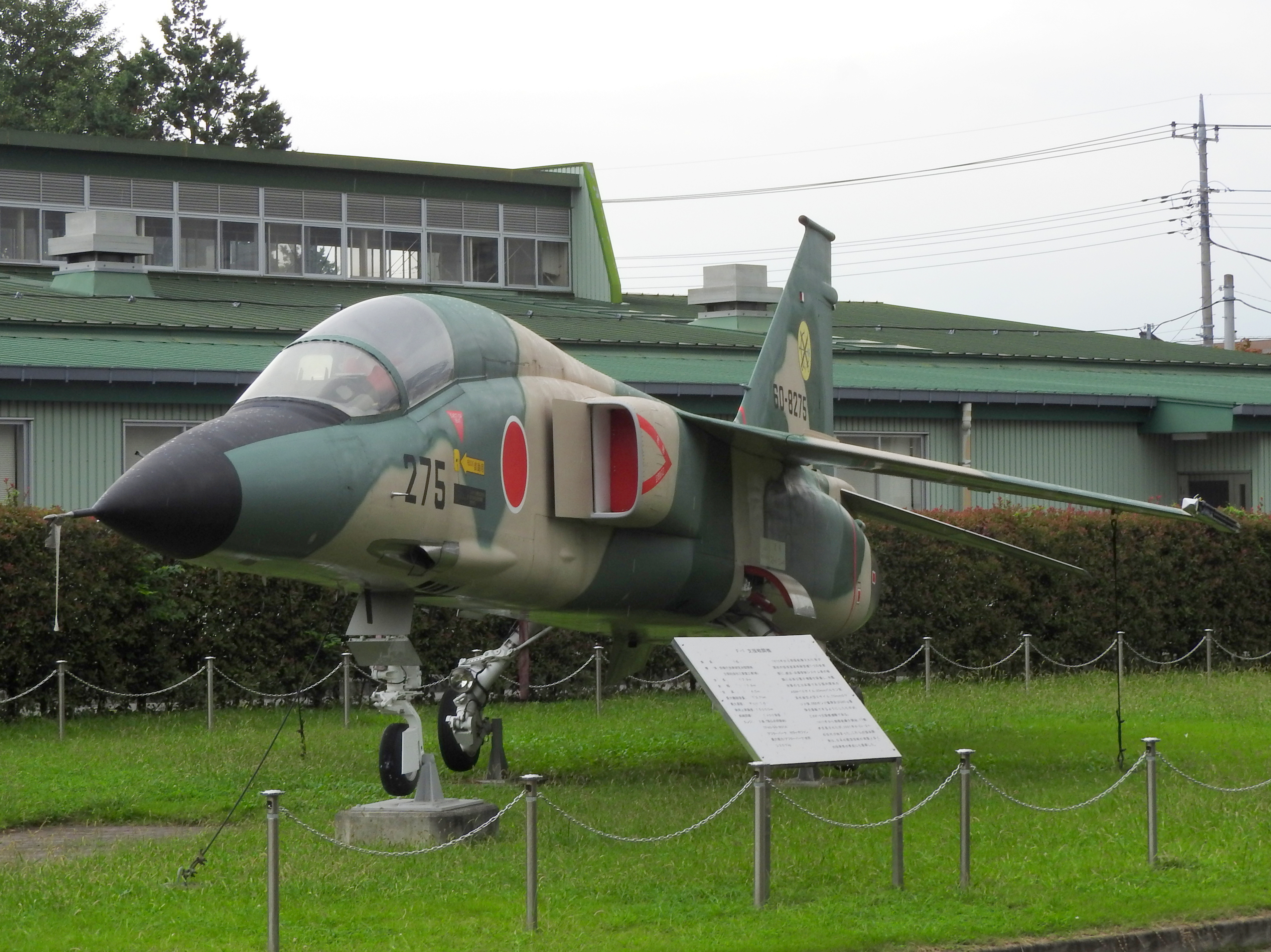 Mitsubishi F-1 60-8275 on display at Fuchu Air Base, Tokyo